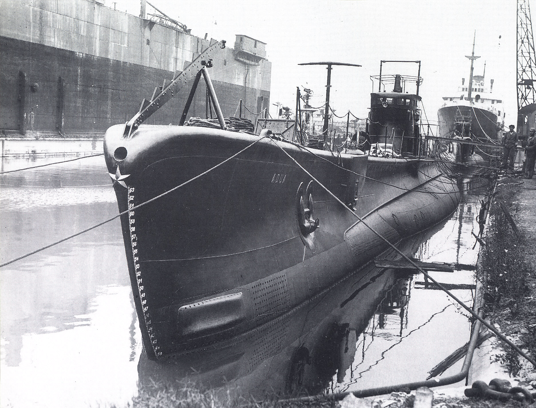 RIN Adua